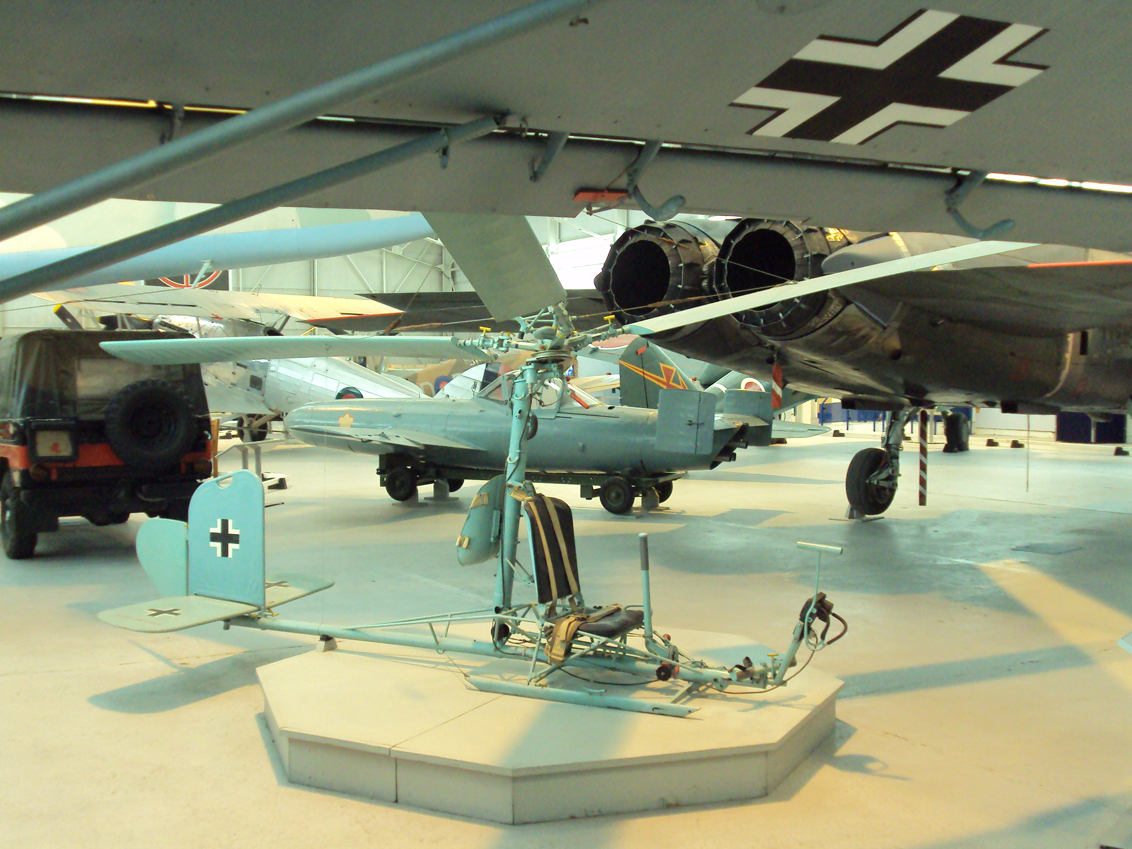 Focke-Achgelis Fa 330 at the RAF Museum Cosford, Shropshire, England.